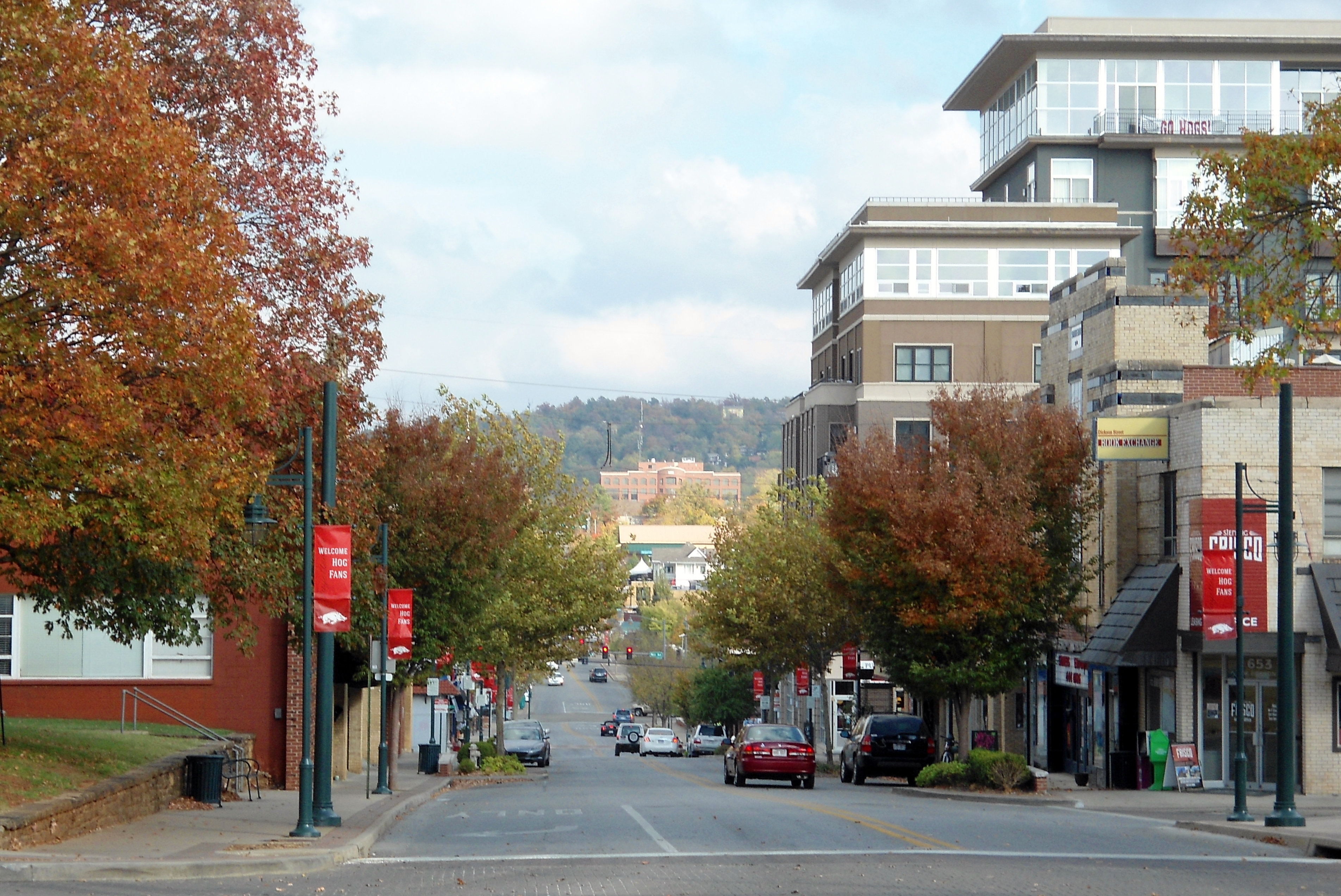 Fall scene on Dickson Street, Fayetteville, AR